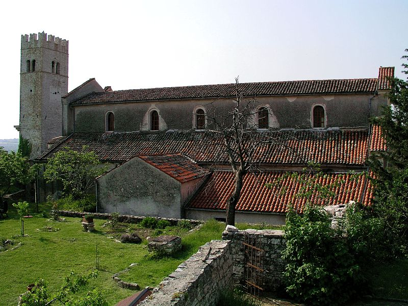 Saint Martin Church in Sveti Lovreč, Croatia